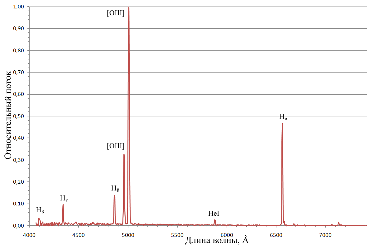 The spectrum of NGC 6826 in range 4067 — 7421 Å. Left part — hydrogen lines (Hδ, 4102 Å, Hγ, 4341 Å and Hβ, 4861 Å) and two forbidden lines of oxygen ([OIII], 4959 Å and [OIII], 5007 Å), right — helium line (HeI, 5876 Å) and hydrogen line (Hα, 6563 Å).